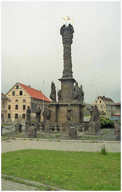 Holy Trinity column in Blíževedly, Česká Lípa District, Czech Republic